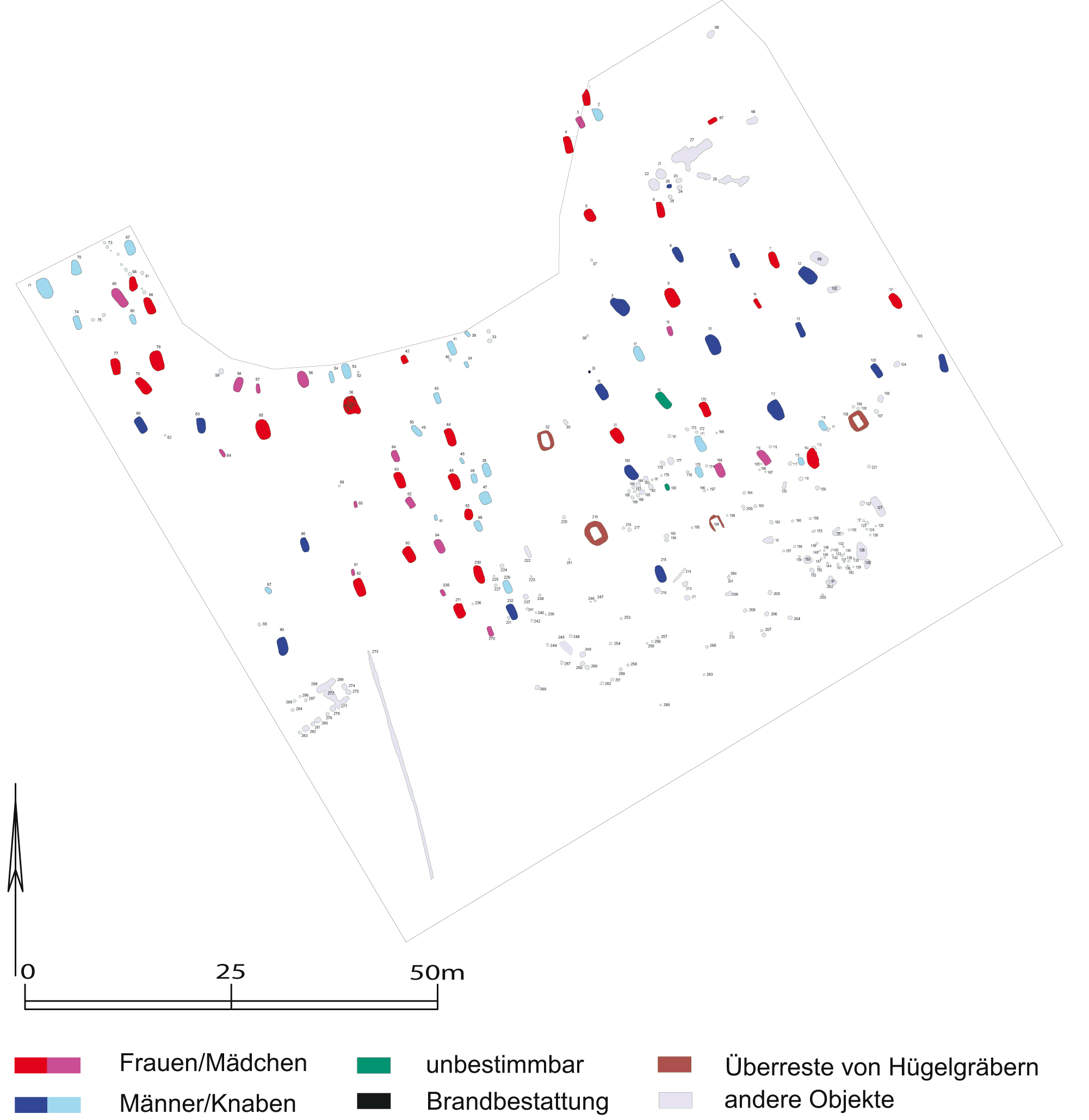 Grave group B of the Early Bronze Age cemetery of Neumarkt an der Ybbs.